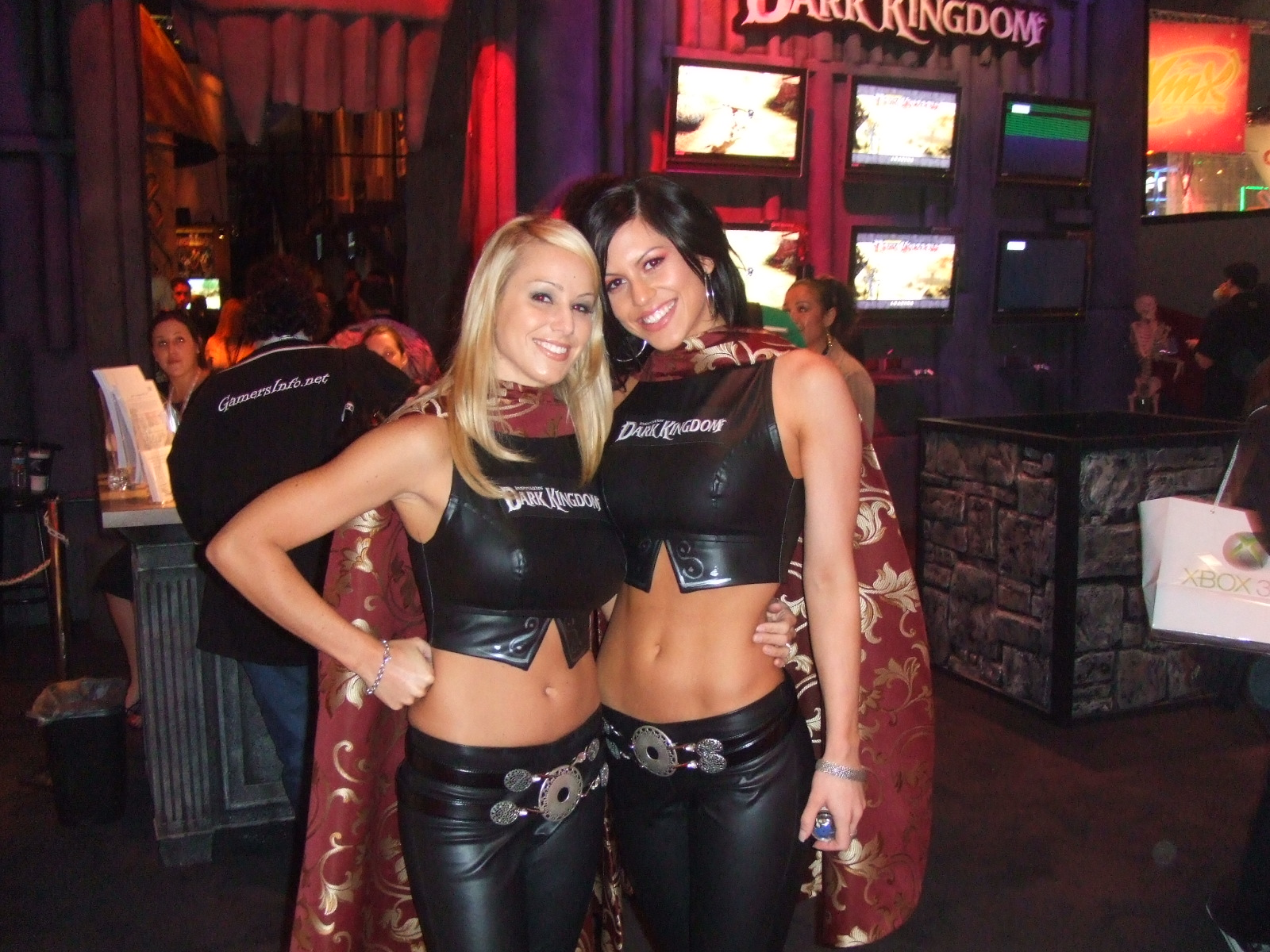 Taken on May 11, 2006 Dowtown Carrier Annex, Los Angeles, CA, US Fujifilm FinePix Z1